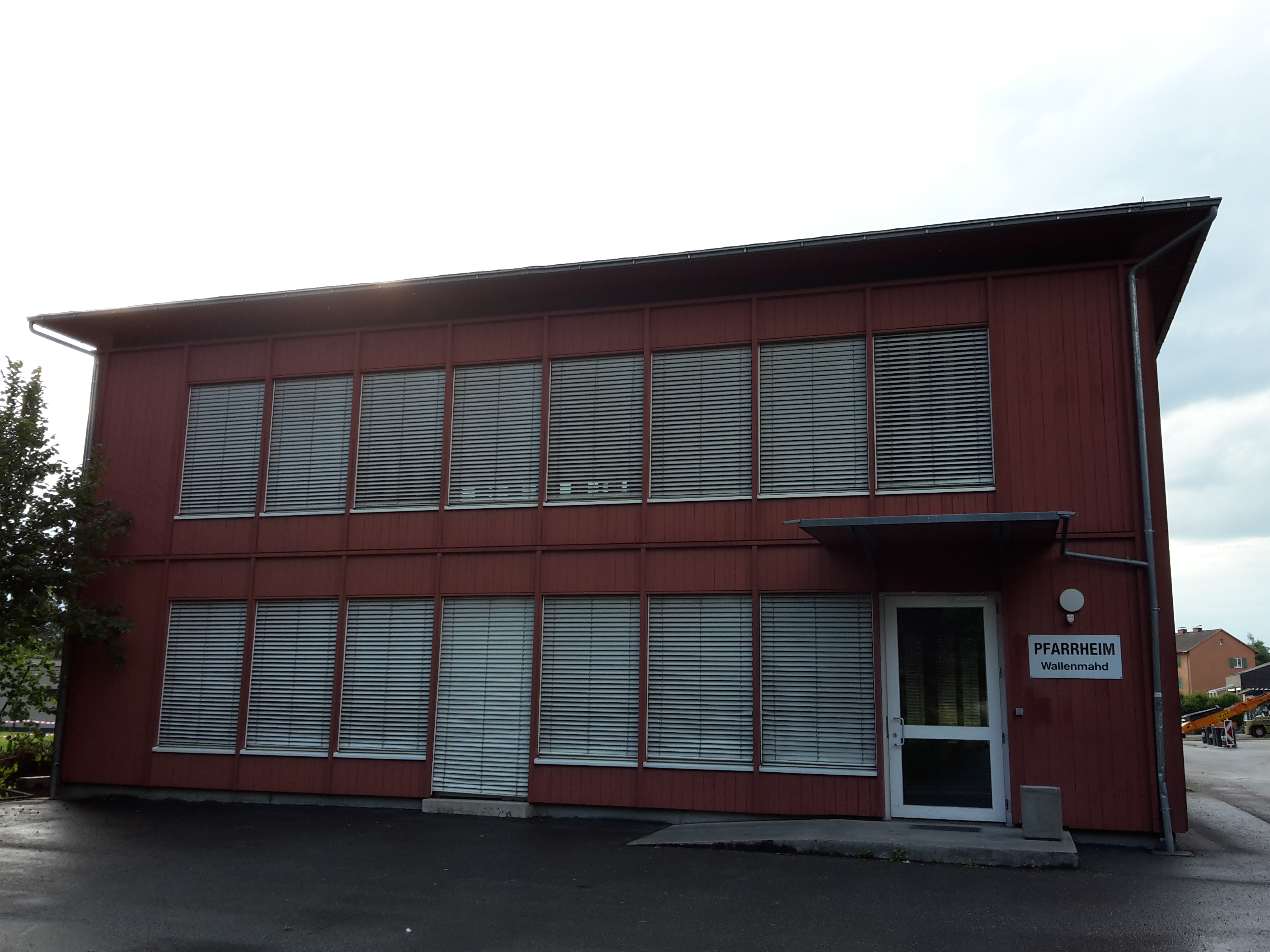 Parish community centre Wallenmahd in Dornbirn, Vorarlberg, Austria.